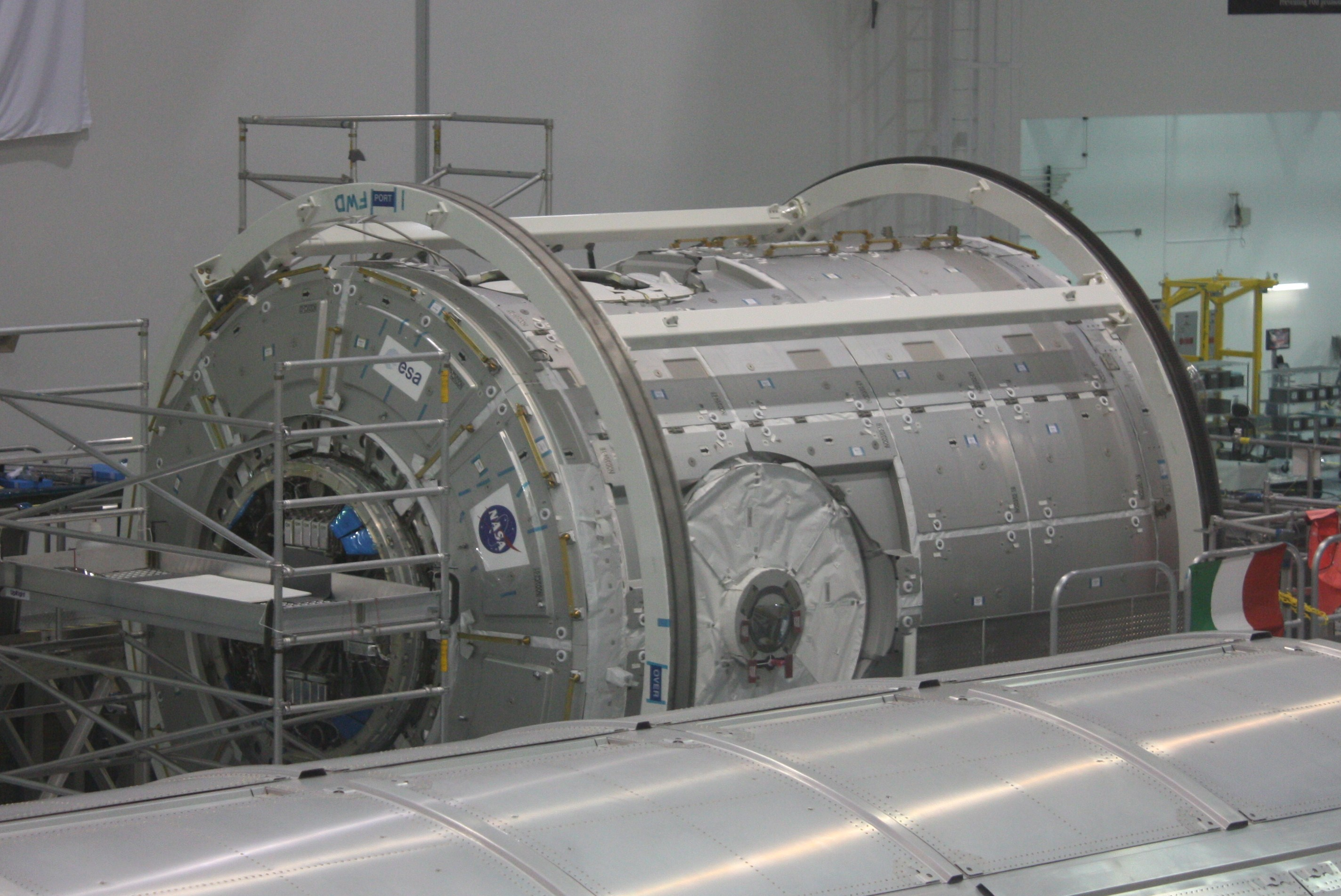 Tranquillity, Node 3 of the International Space Station, awaits launch in NASA's Space Station Processing Facility at Kennedy Space Centre. In the foreground is the partially dismantled MPLM Donatello.